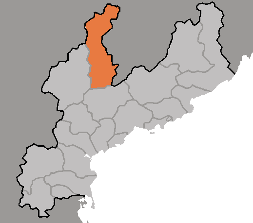 Map of Bujon, Hamgyong-namdo, DPRK, 2006